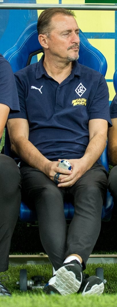 Vojo Ćalov as a coach of FC Krylia Sovetov Samara during a game against FC Rostov.